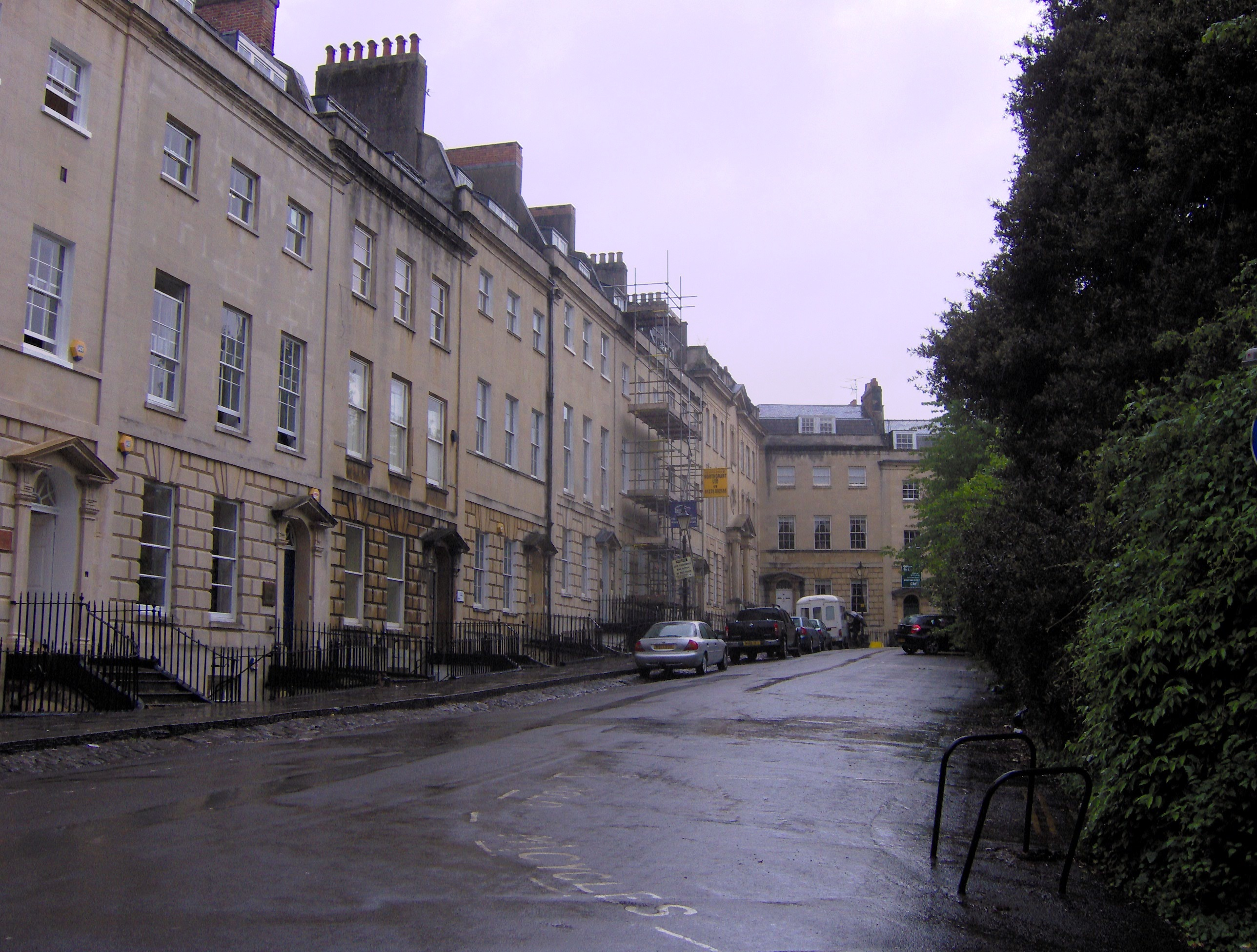 East side of Berkeley Square, Bristol. Taken by Rod Ward 11th May 2007